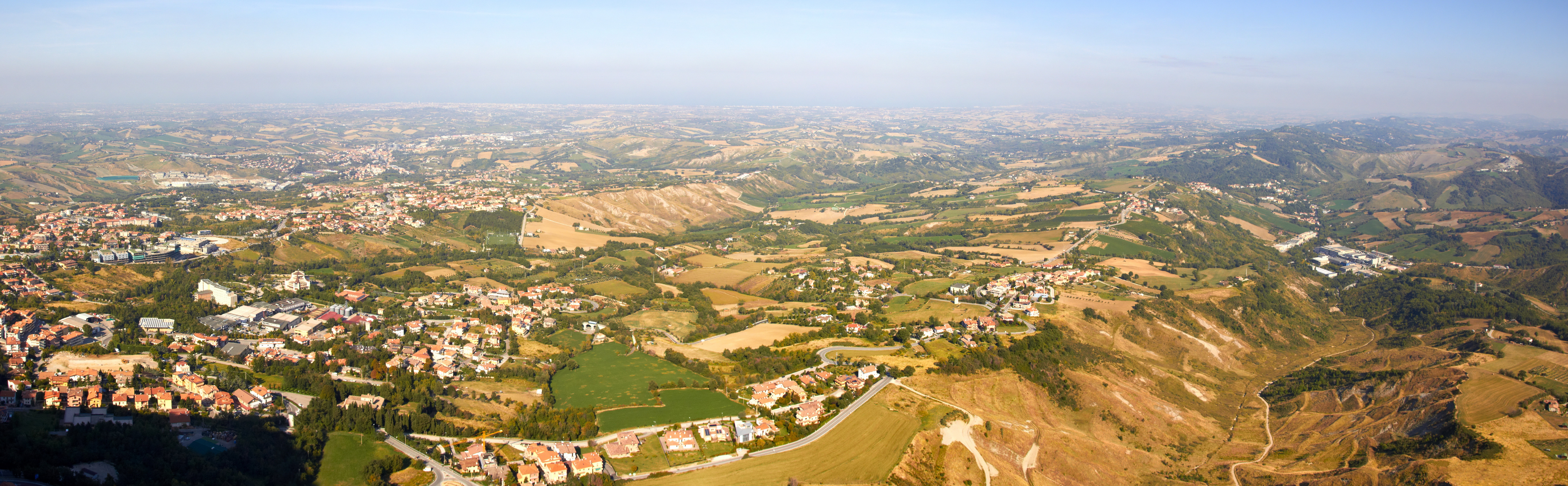 The view from Monte Titano, San Marino